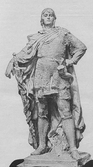 Memorial commemorating to Otto I (c. 1128-1184), second Margrave of Brandenburg and son of Albert the Bear. Inaugurated 1898 in the former Siegesallee in Berlin, created by the sculptor Max Unger. At the present stored in the Lapidarium in Berlin-Kreuzberg.